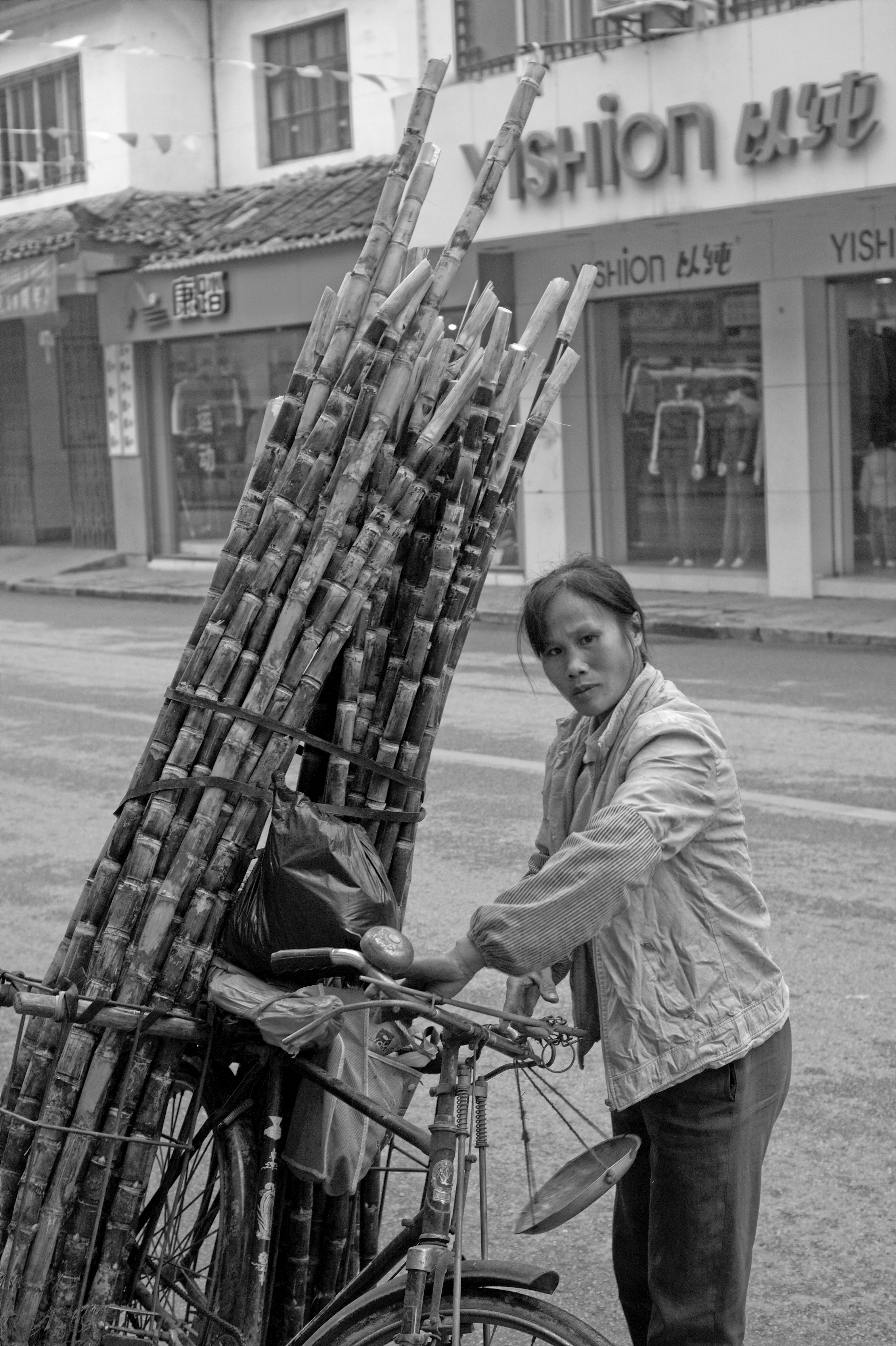 A Chinese woman is selling canes in the streets of Yangshuo, south of China.